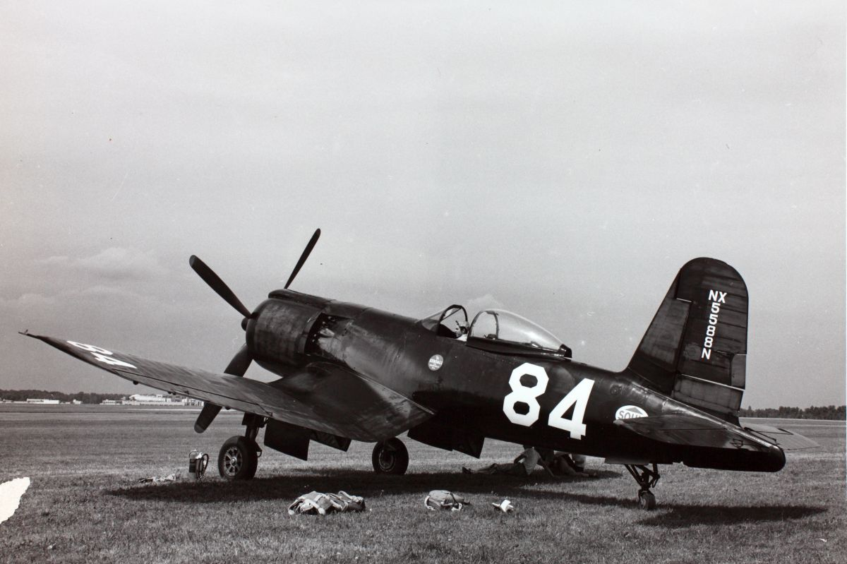 Title: Goodyear F2G, No. 84, NX5588N Catalog #: 15_000820 Date: 1947 Creation Place: USA, Cleveland, Ohio ADDITIONAL INFORMATION: Crashed in 1947 Thompson, Tony Janazzo Killed Collection: Charles M. Daniels Collection Photo Album Name: Cleveland, 46-49 Page #: 24 Tags: Goodyear F2G, No. 84, NX5588N, Crashed in 1947 Thompson, Tony Janazzo Killed PUBLIC COMMONS.SOURCE INSTITUTION: San Diego Air and Space Museum Archive